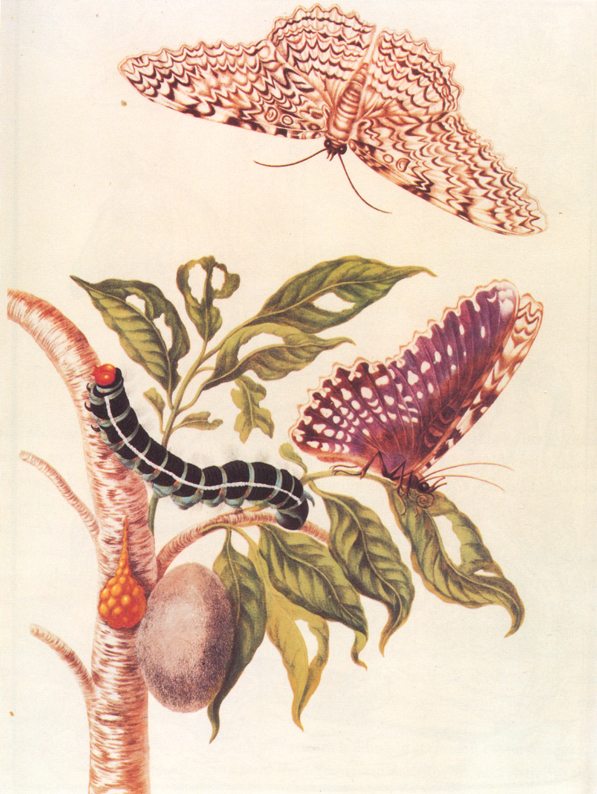 Metamorphosis of a Butterfly